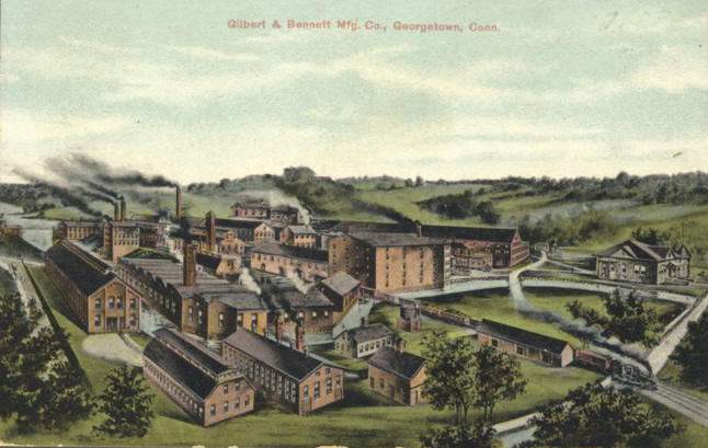 Postcard: Gilbert & Bennett manufacturing plant in the hamlet of Georgetown, Connecticut, 1909 postmark From caption on picture: "Gilbert & Bennett Mfg. Co., Georgetown, Conn." From store Web page: "mailed in 1909"